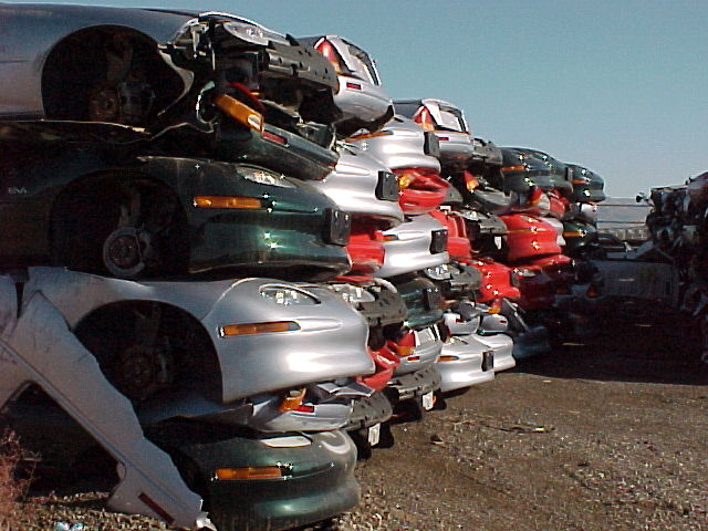 Piles of crushed GM EV1 electric cars